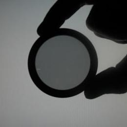 A polarizer in front of a flat screen monitor (the light from the flat screen is polarized). Continued in the pictures : Polariseur4.JPG, Polariseur5.JPG, ...